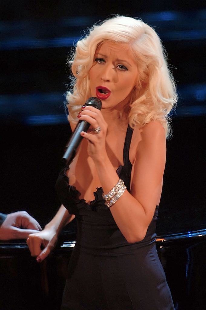 Christina Aguilera performing during the Sanremo Story festival